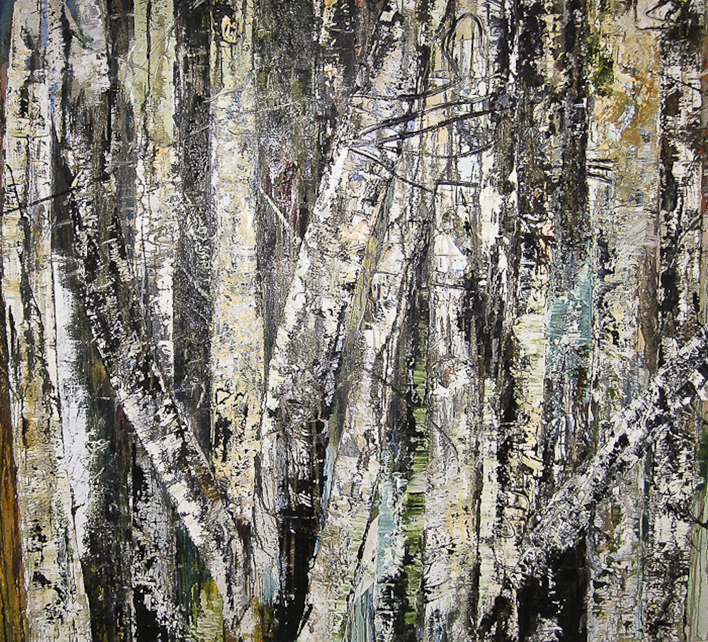 Painting by Adam Shaw